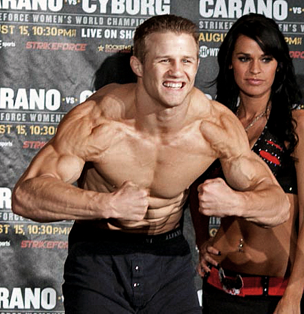 Justin Wilcox weighs in for Strikeforce: Carano vs. Cyborg in San Jose, California on August 14, 2009.